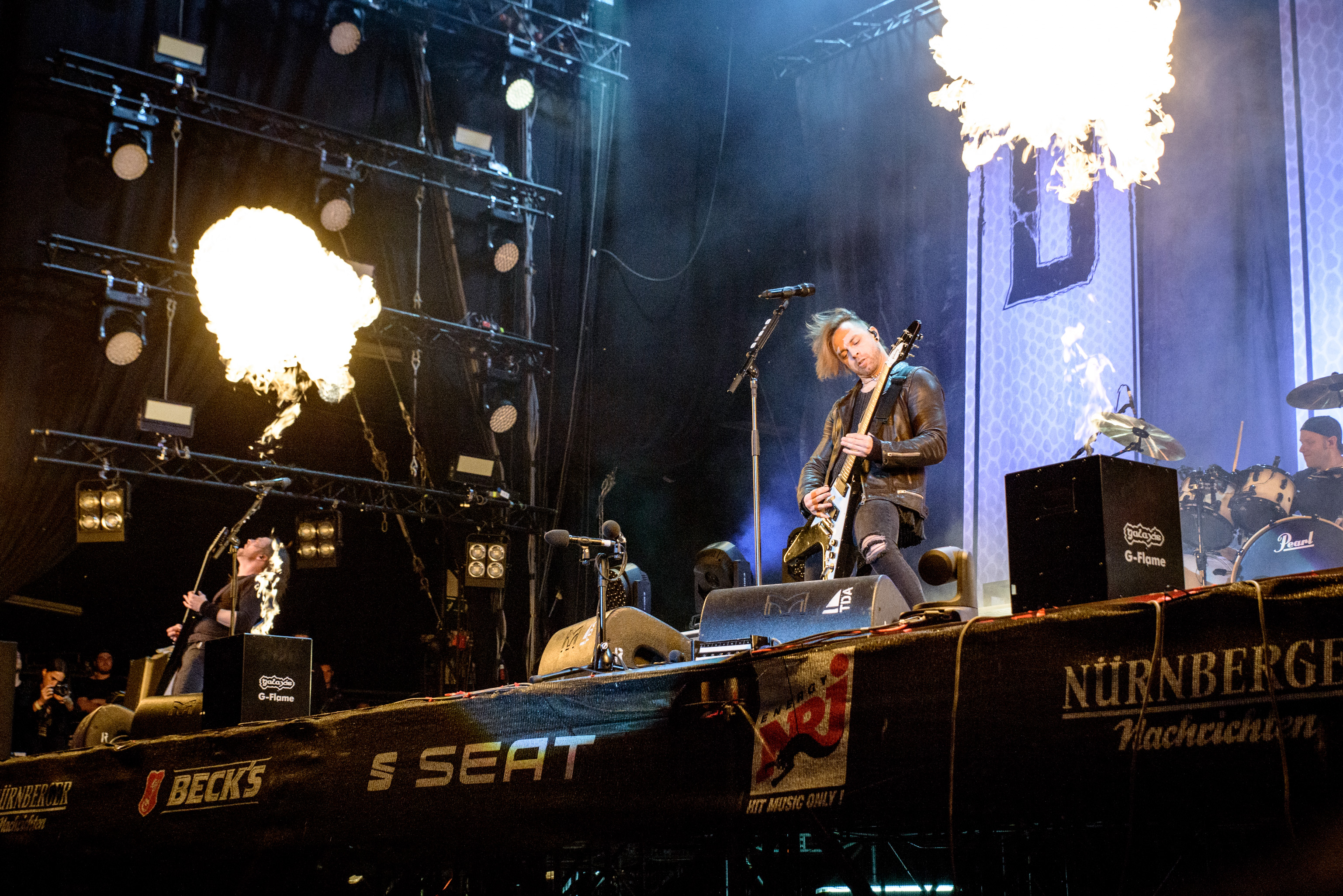 Bullet for my Valentine @ Rock im Park 2016